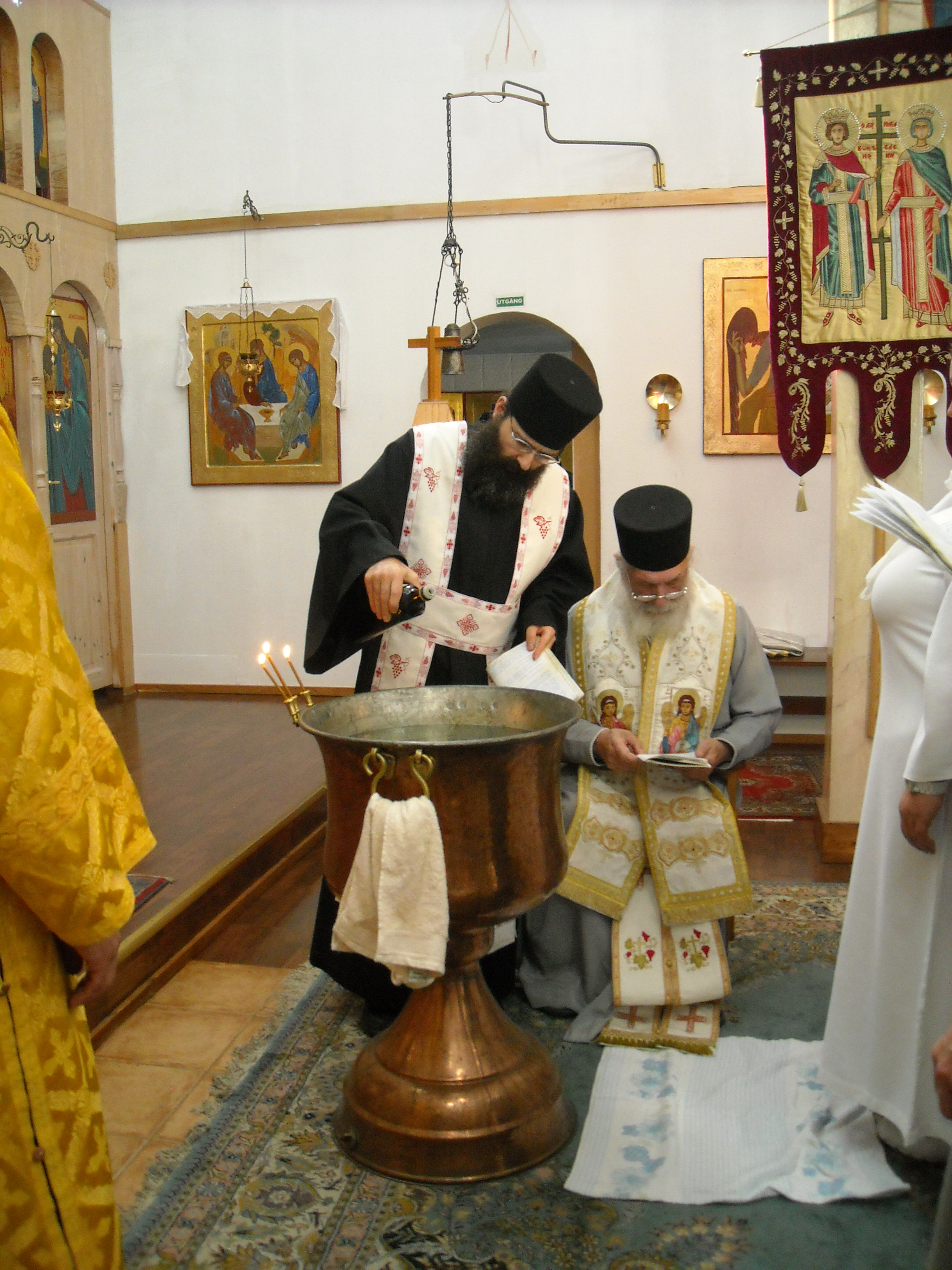 Church of Sts. Constantine and Helen, Vårberg, Stockholm (Bishop Johannes of Makarioupolis)